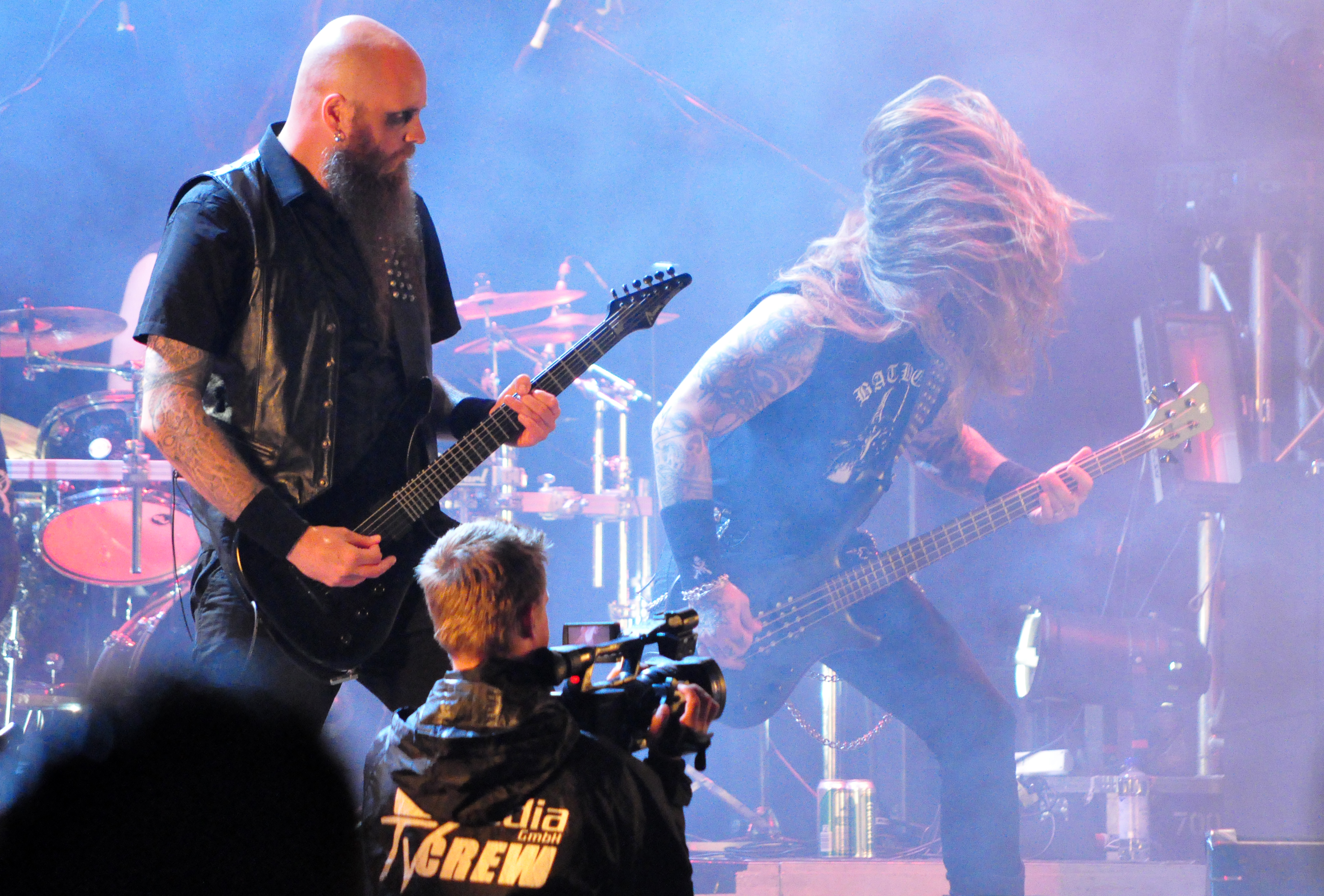 Naglfar at Party.San Open Air 2012